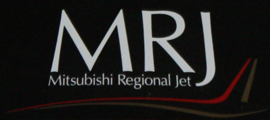 MRJ project logo as seen on a scale model.